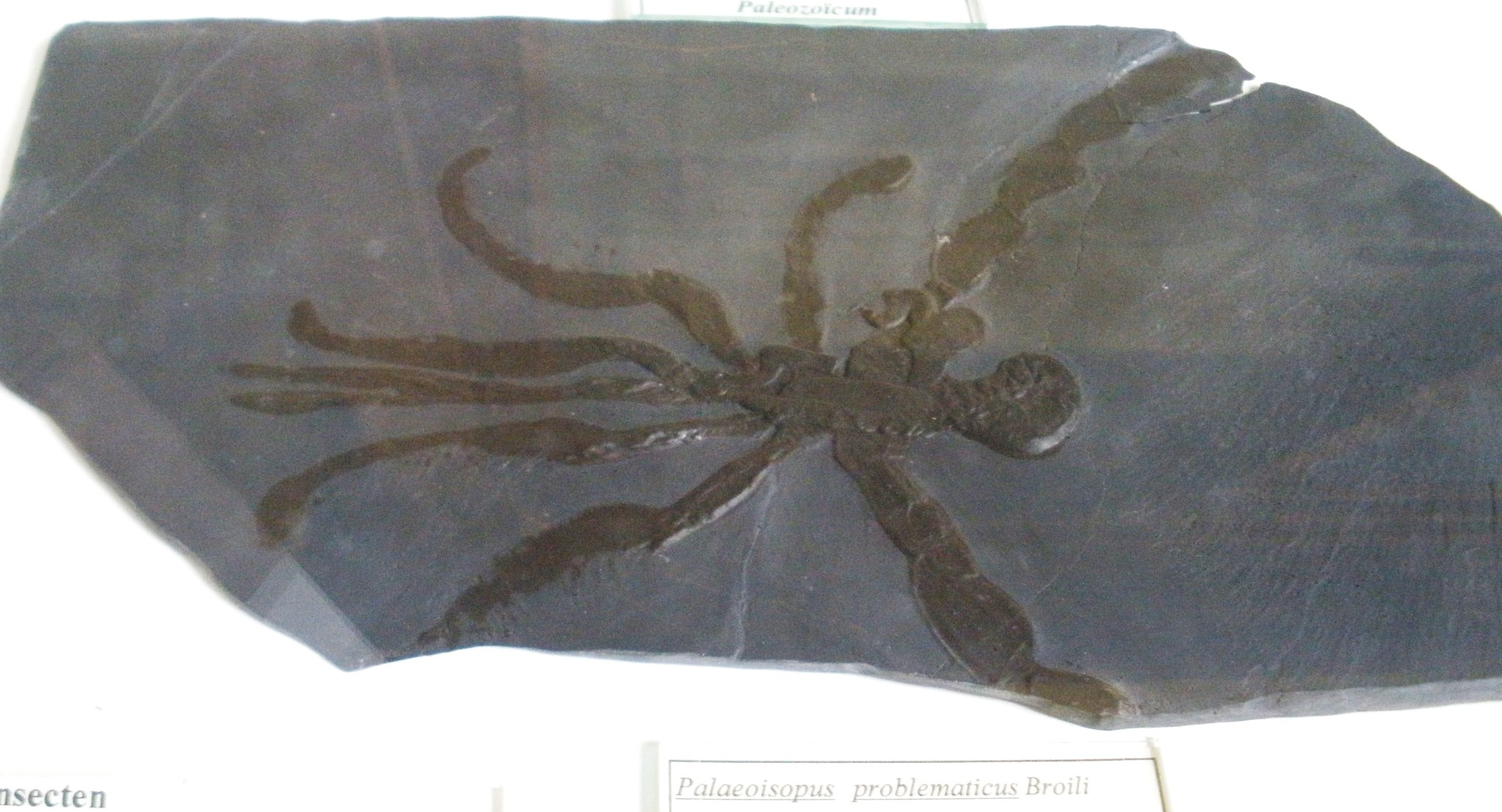 Fossil of Palaeoisopus, an extinct pantopod. Devonian of Bundenbach, Teylers Museum, Haarlem, the Netherlands. Speciman is about 17 cm long